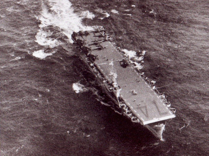 The U.S. Navy escort carrier USS Nehenta Bay (CVE-74) underway at sea in 1945. She is painted in Camouflage Measure 33, Design 10A.